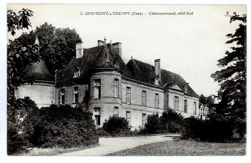 Château-Renaud, Germigny-l'Exempt, in 1900